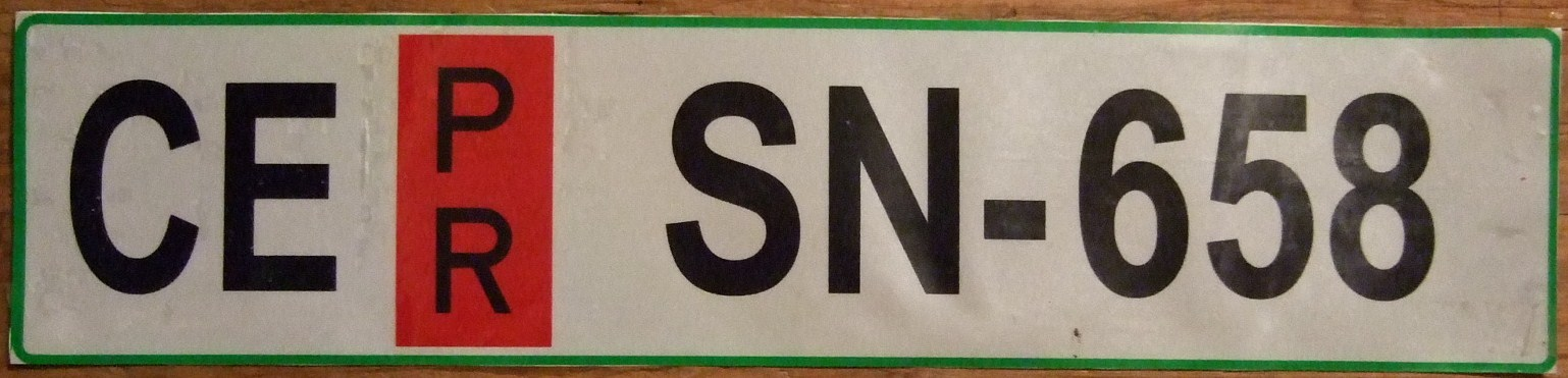 This Slovenian temporary plate unissued is a sticker, full sized which I believe when the sticker backing was removed it was applied to a backing plate for use on a vehicle to be removed and used repeatedly.